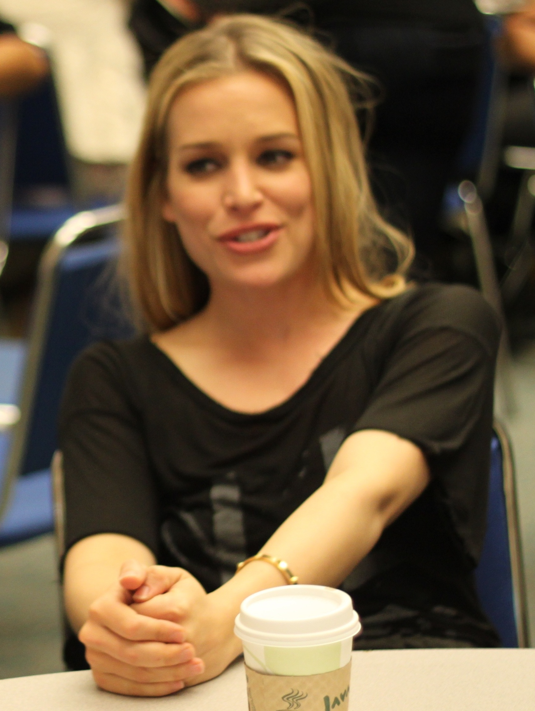 Piper Perabo at the 2011 Comic-Con in San Diego.